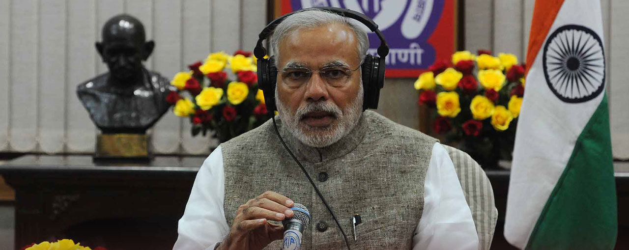 Text of Prime Minister’s ‘Mann ki Baat’ on All India Radio